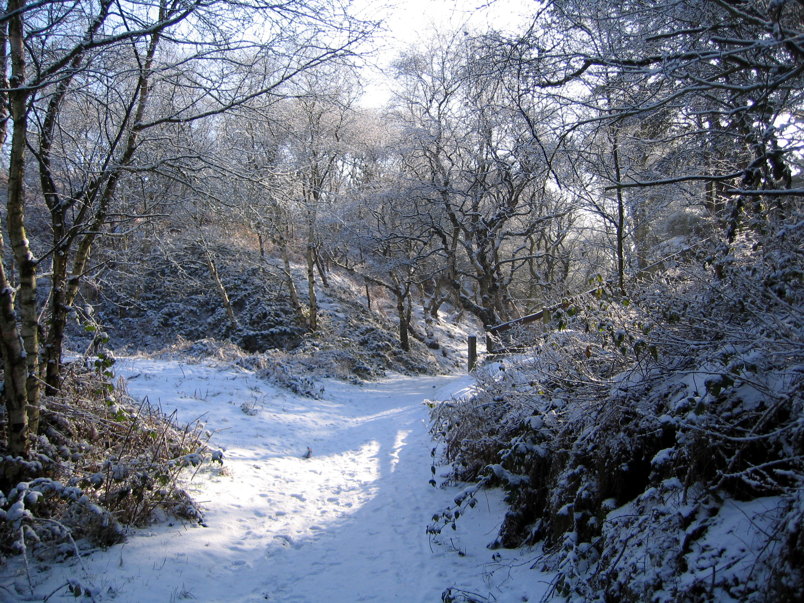 Photograph taken by me on 4 March 2006.